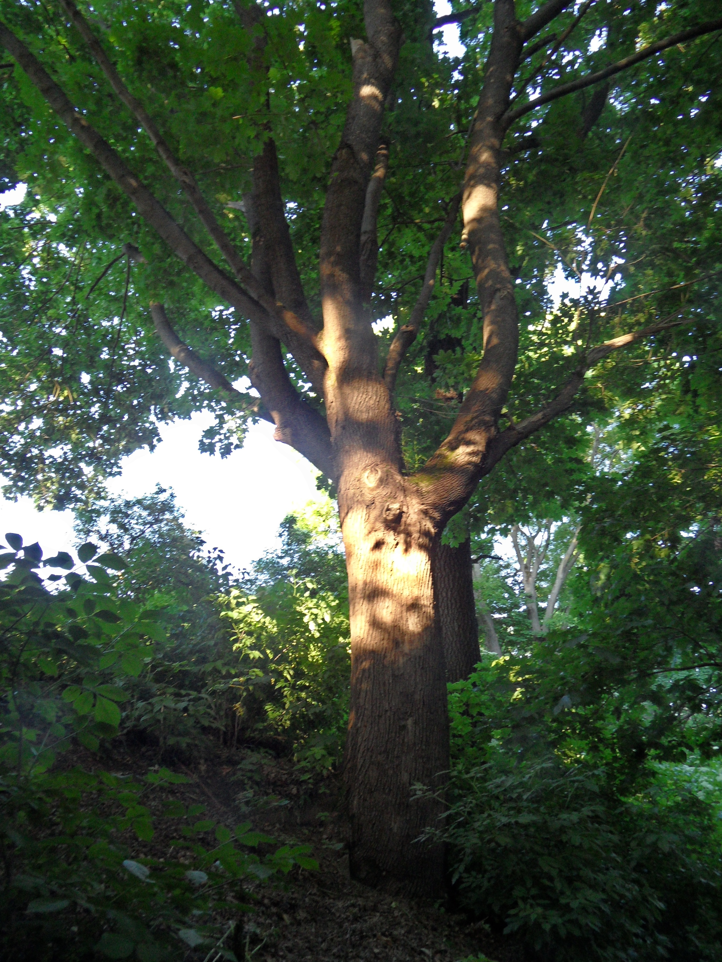 Pelhřimov, Famous tree Acer platanoides, near Raděčínská street, near Městské sady. Overview from South. Pelhřimov, the Czech Republic.